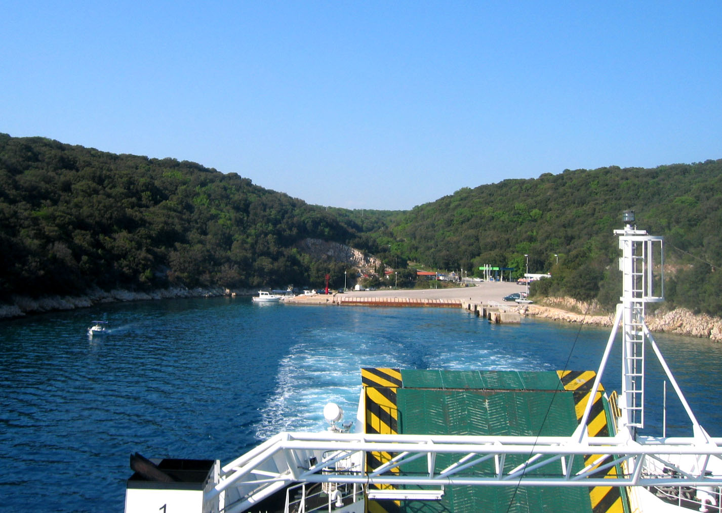 Valbiska, croatian ferry port in island Krk (line to Merag, island Cres)